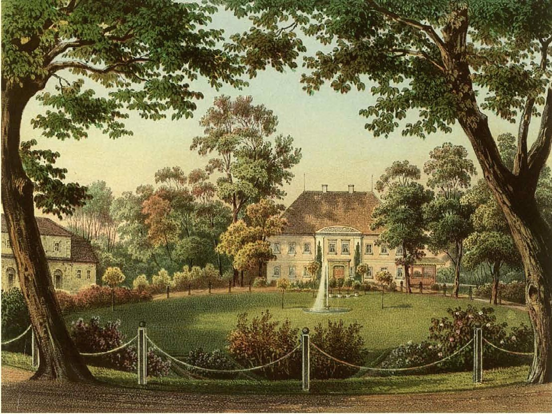 Borek (powiat głogowski) in 1883, lithography by A. Duncker.]